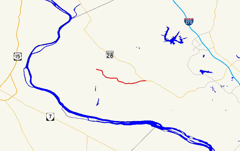 Map of Maryland Route 107